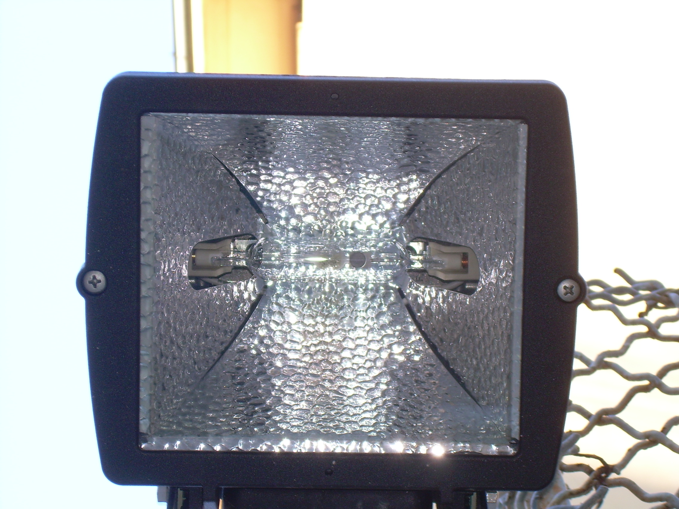 70 W mercury-vapor lamp.